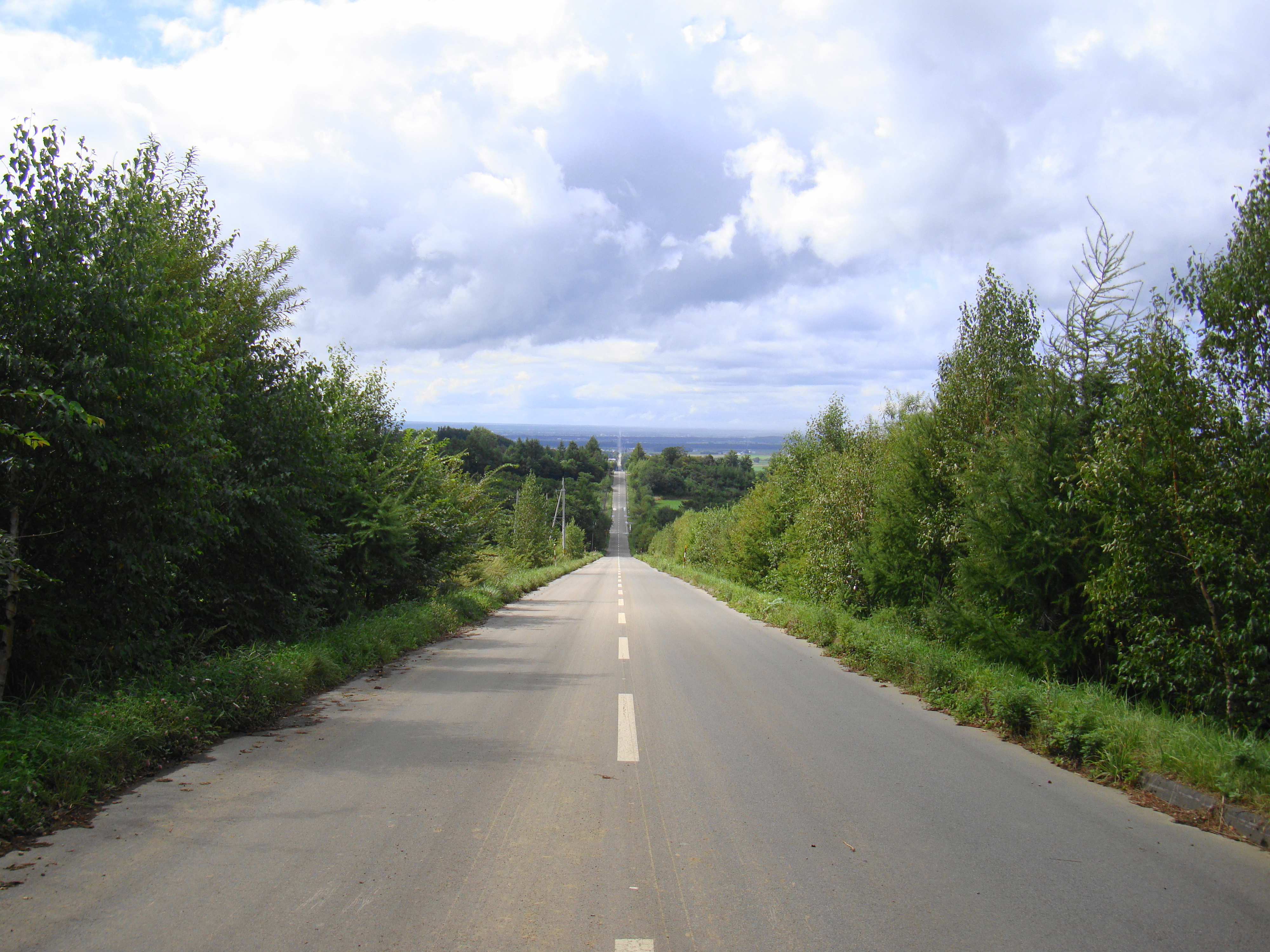 Road of Shari, Hokkaido, Japan.